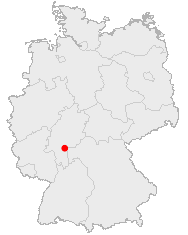 Location of Hanau in Germany